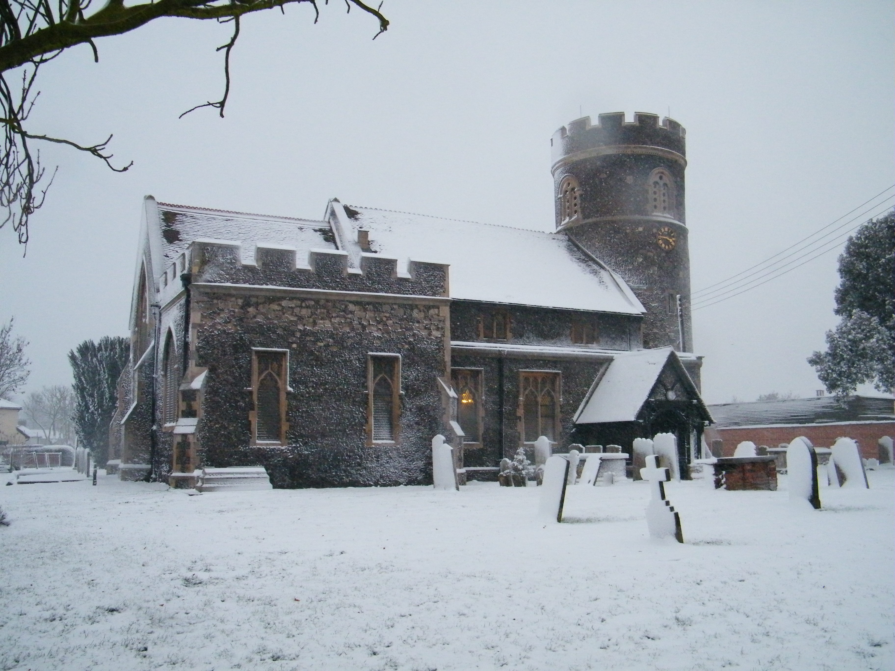 St Nicholas' parish church, South Ockendon, Essex, seen from the northeast in snow